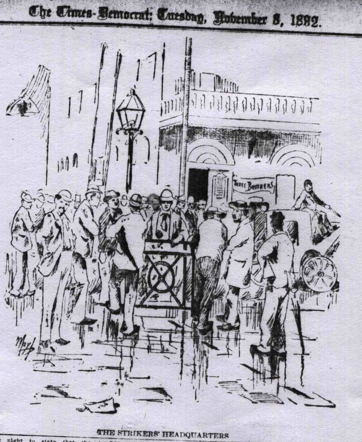 The Three Brothers strike headquarters for the New Orleans general strike of 1892.